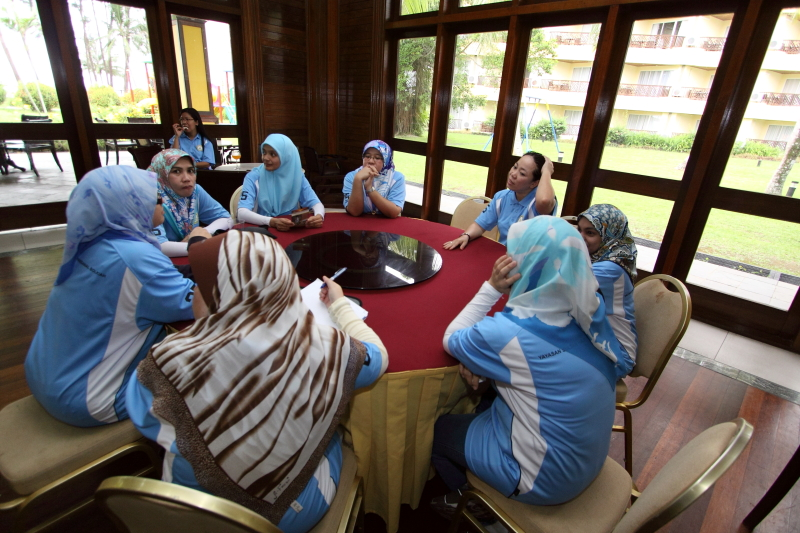 Women dining at a restaurant in Labuan.